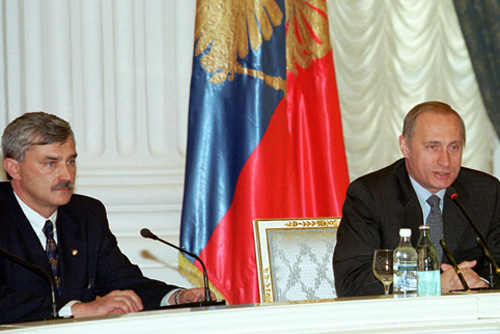 THE KREMLIN, MOSCOW. President Putin introducing Georgy Poltavchenko, Presidential Plenipotentiary Envoy, to the Central Federal District.